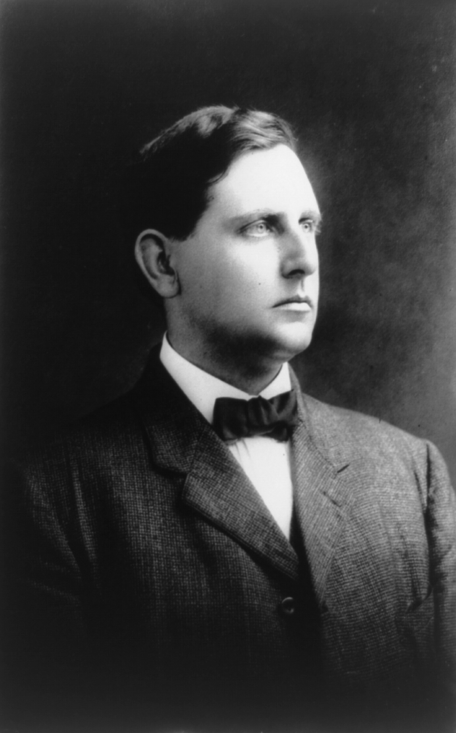 William B. Craig, half length portrait, facing right